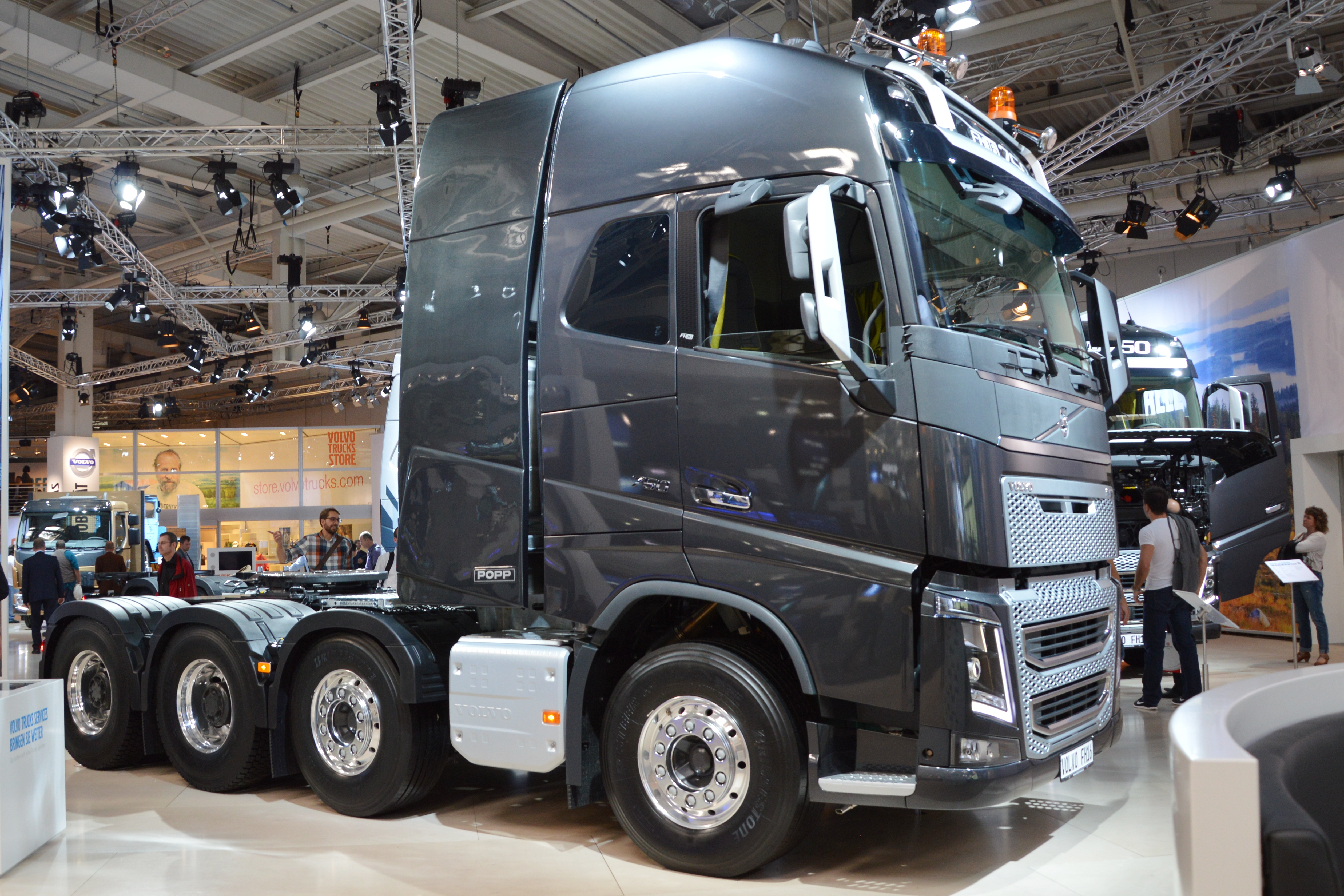 Volvo FH 16 750 8x4. GCW: up to 100 t. Engine: Volvo D16G. Power: 750 hp. Photo taken at exhibition IAA 2014 in Hanover, Germany.